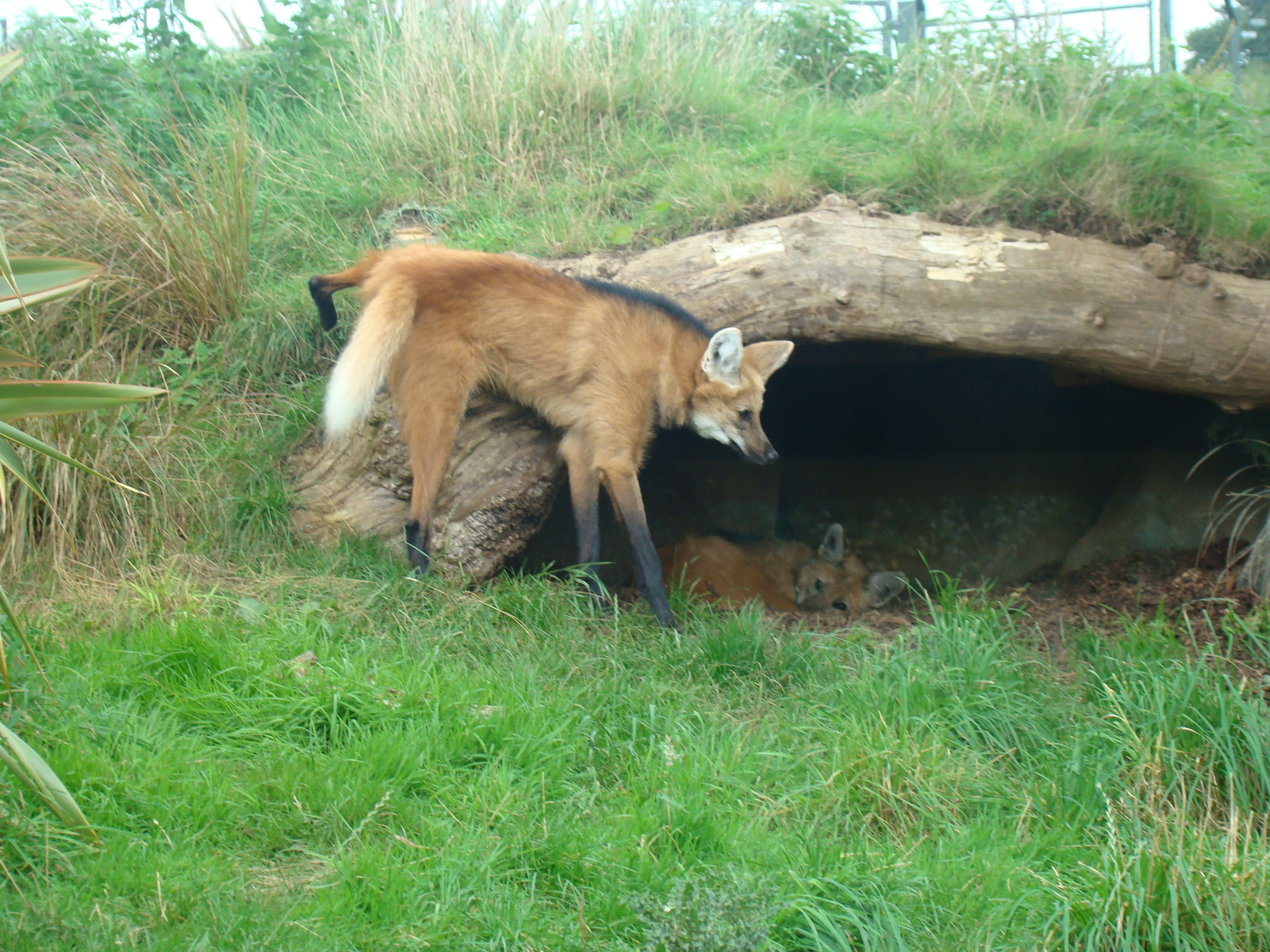 A maned wolf in Edinburgh Zoo.